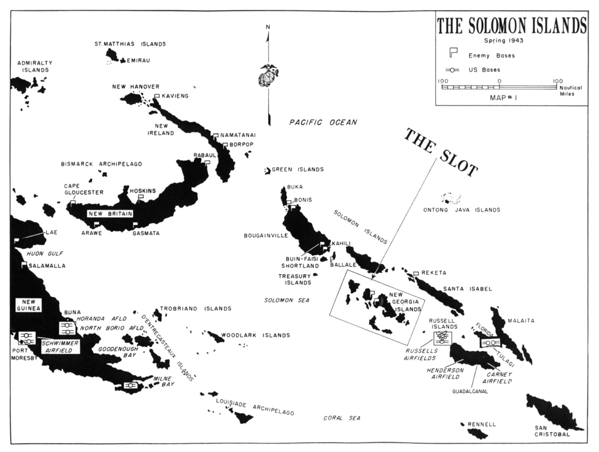 Solomon Islands, South Pacific showing situation in Spring 1943 before the Allied invasion of the highlighted New Georgia Island group.